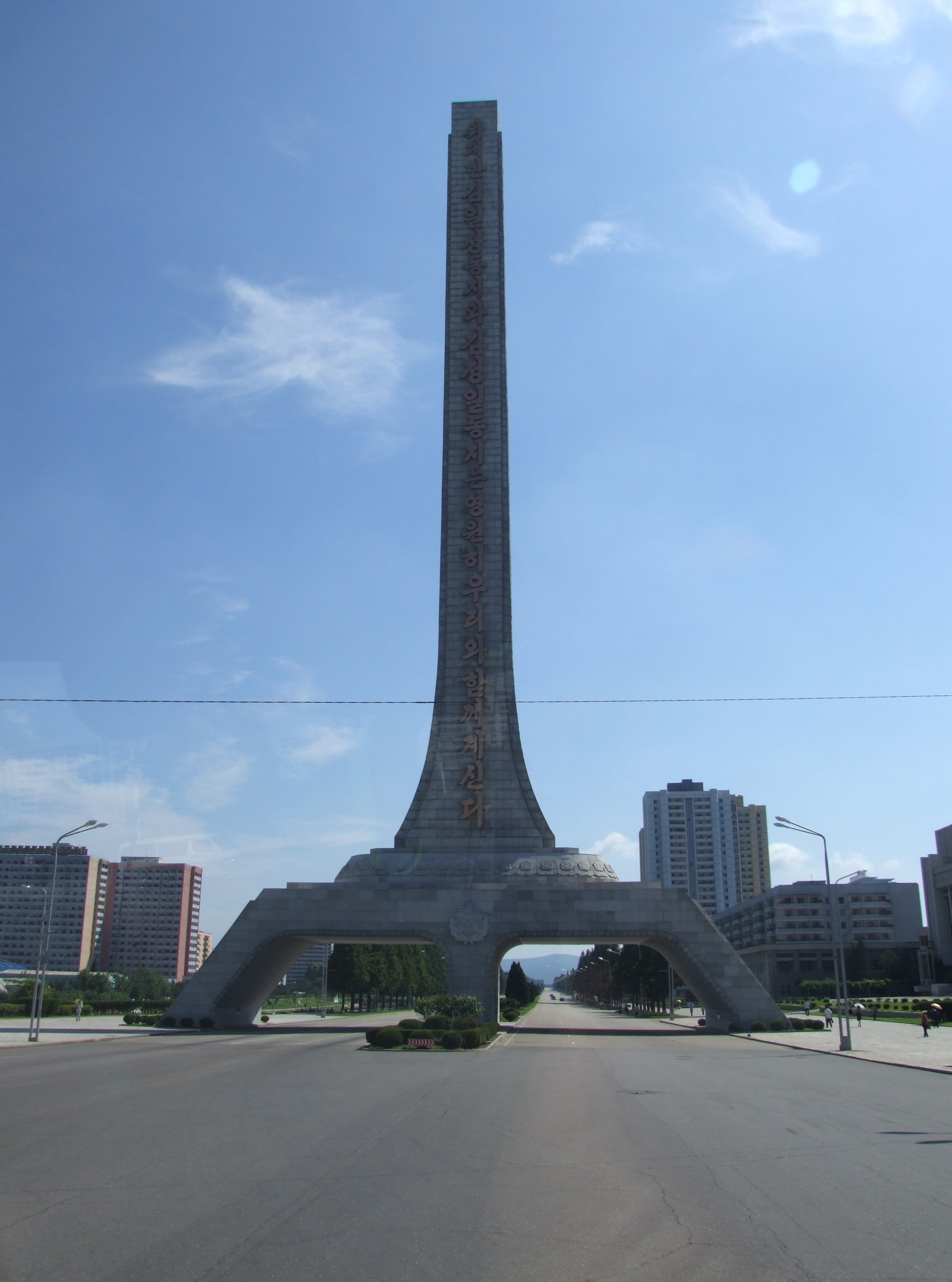 Immortality Tower to Kim Il-sung in Pyongyang, saying "The great leader, comrade Kim Il-sung and Kim Jong-il will stay with us forever"